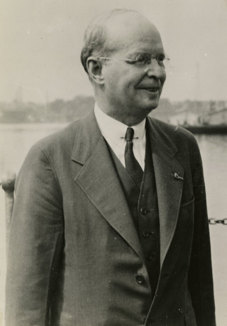 Original caption: Governor Robert O. Blood and Rear Admiral T. Withers, U.S.N. at launching of USS Bang and USS Pilotfish launched at U.S. Navy Yard, Portsmouth, N.H. Aug. 30, 1943.